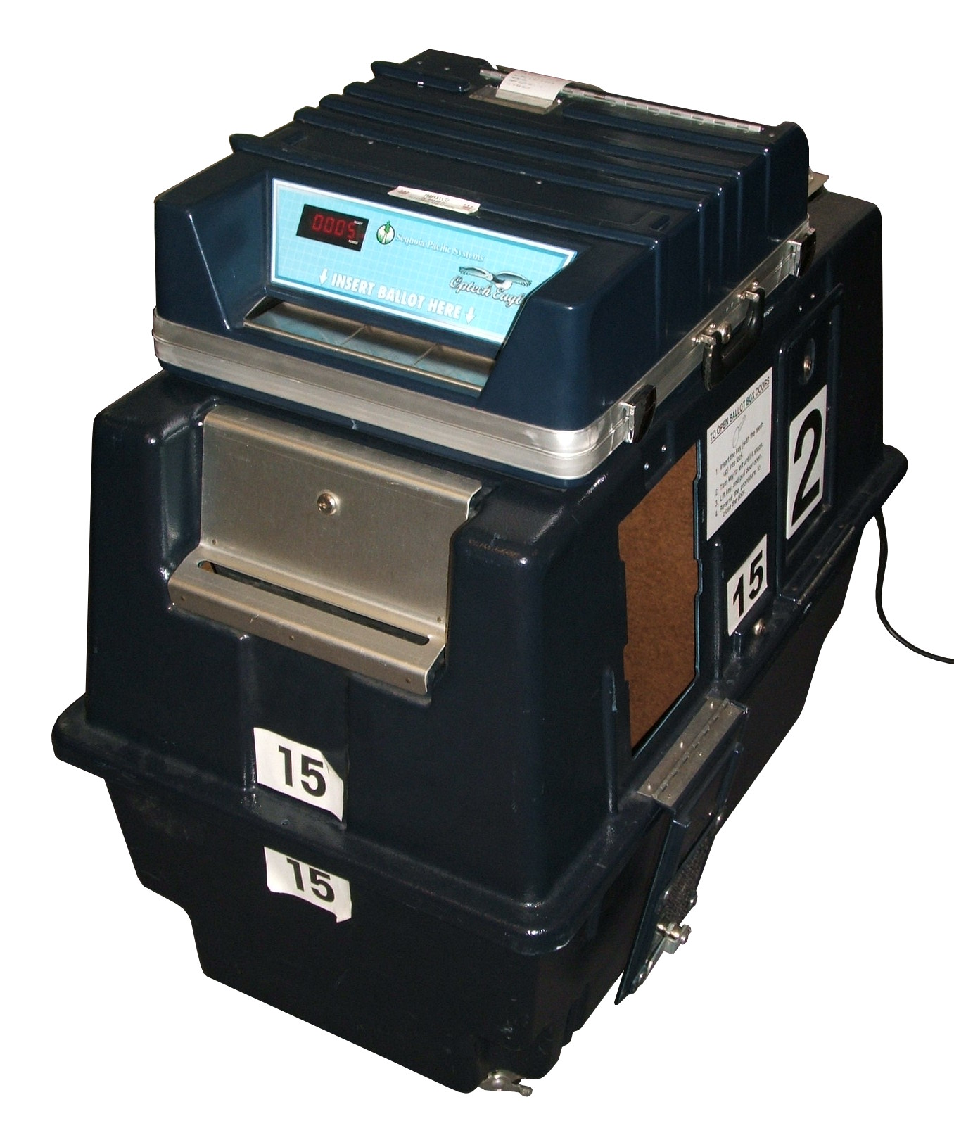 An Optech Eagle ballot scanner made by Sequoia Pacific Systems. The scanner itself sits on top of a much larger ballot box, and is intended for use in a polling place.